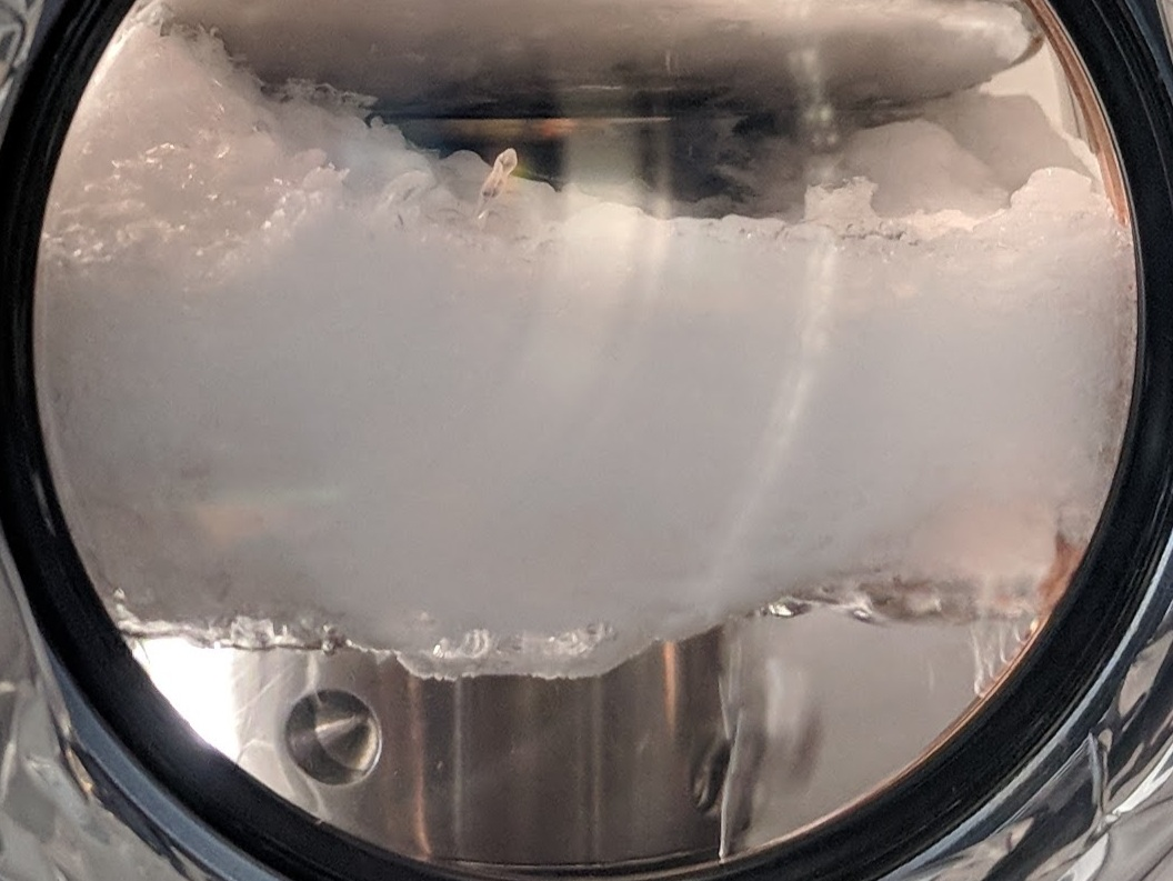 Xenon inside an insulated cell located at Lawrence Berkeley National Lab.